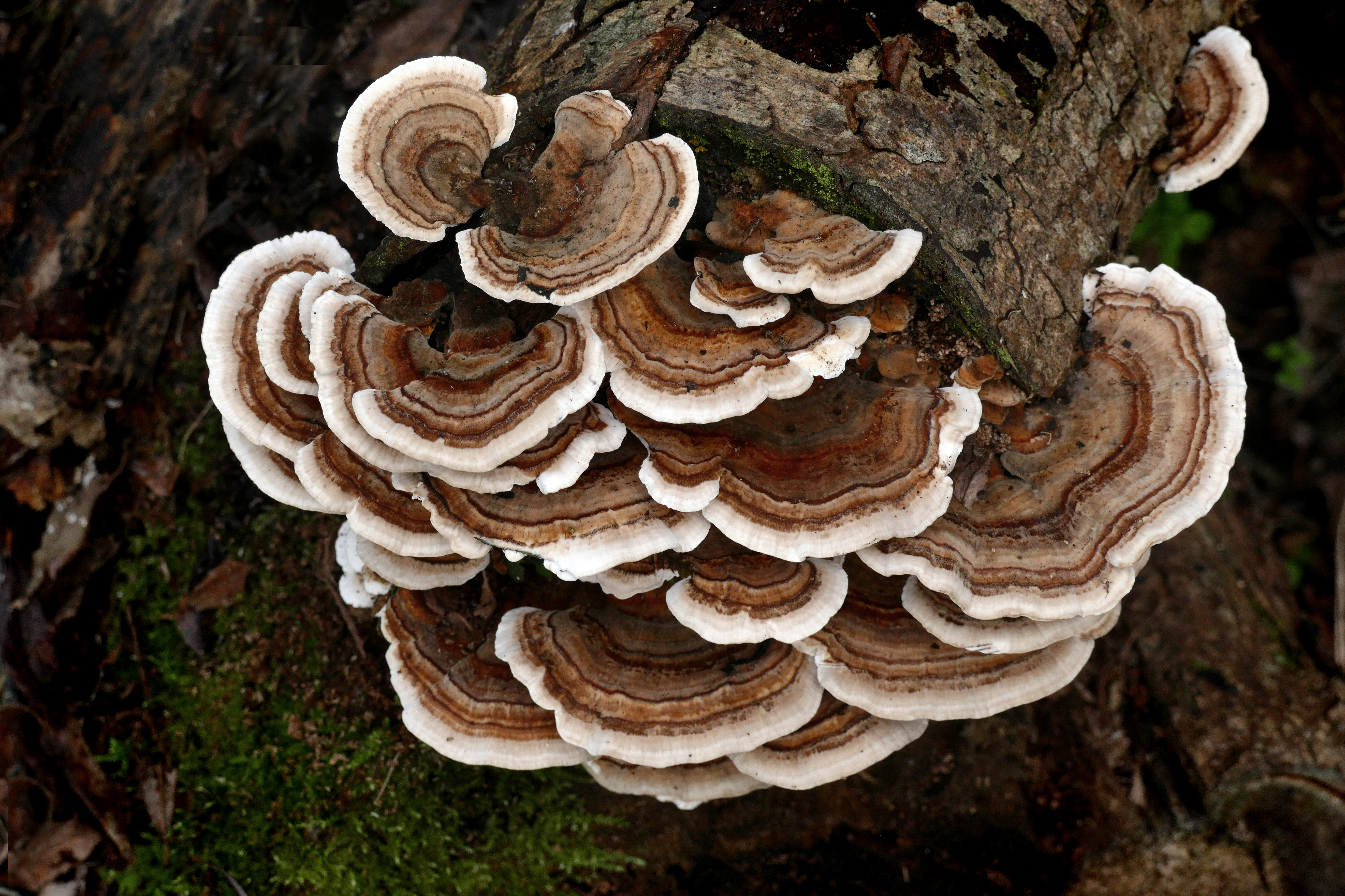 Turkey Tails, (Trametes versicolor) fruiting body on rotting tree log, Trametes versicolor – also known as Coriolus versicolor and Polyporus versicolor – is a common polypore mushroom found throughout the world. Meaning 'of several colours', versicolor reliably describes this fungus that displays different colors.